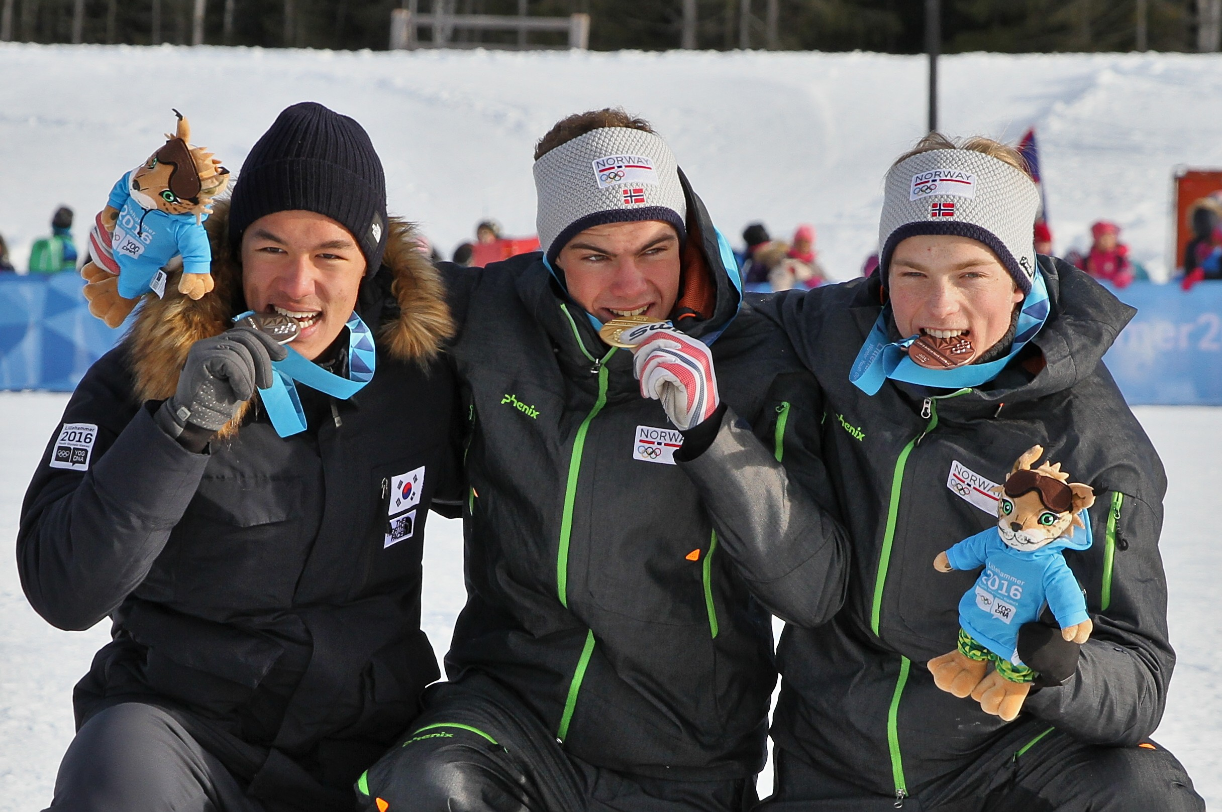 Lillehammer 2016 Cross country sprint classic men medalists - - Thomas Helland Larsen (gold), Magnus Kim (silver) and Vebjoern Hegdal (bronze)